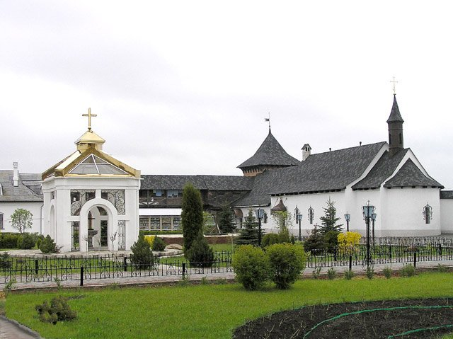 On the grounds of the Zymne Monastery.